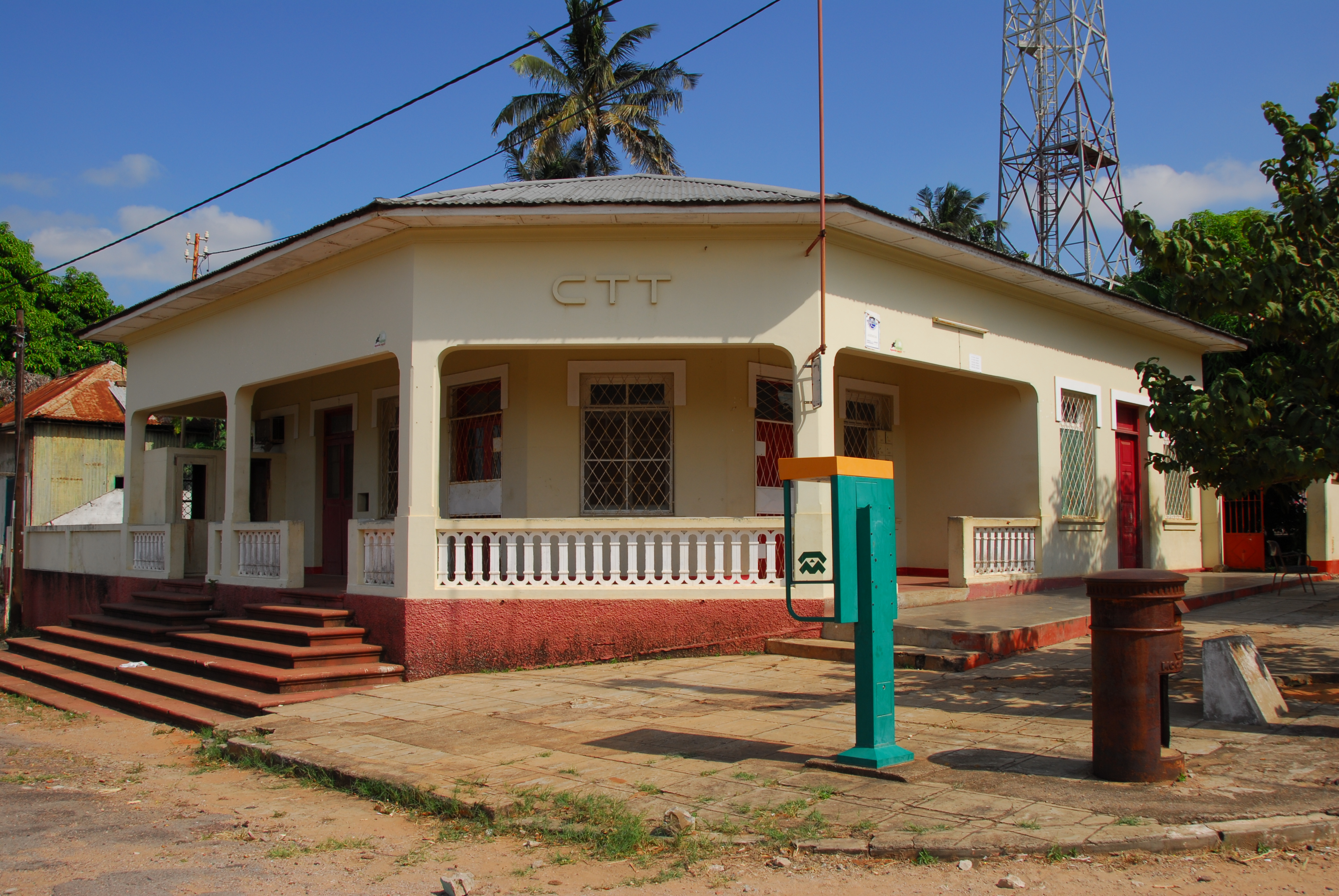 Post office in Marracuene, Mozambique